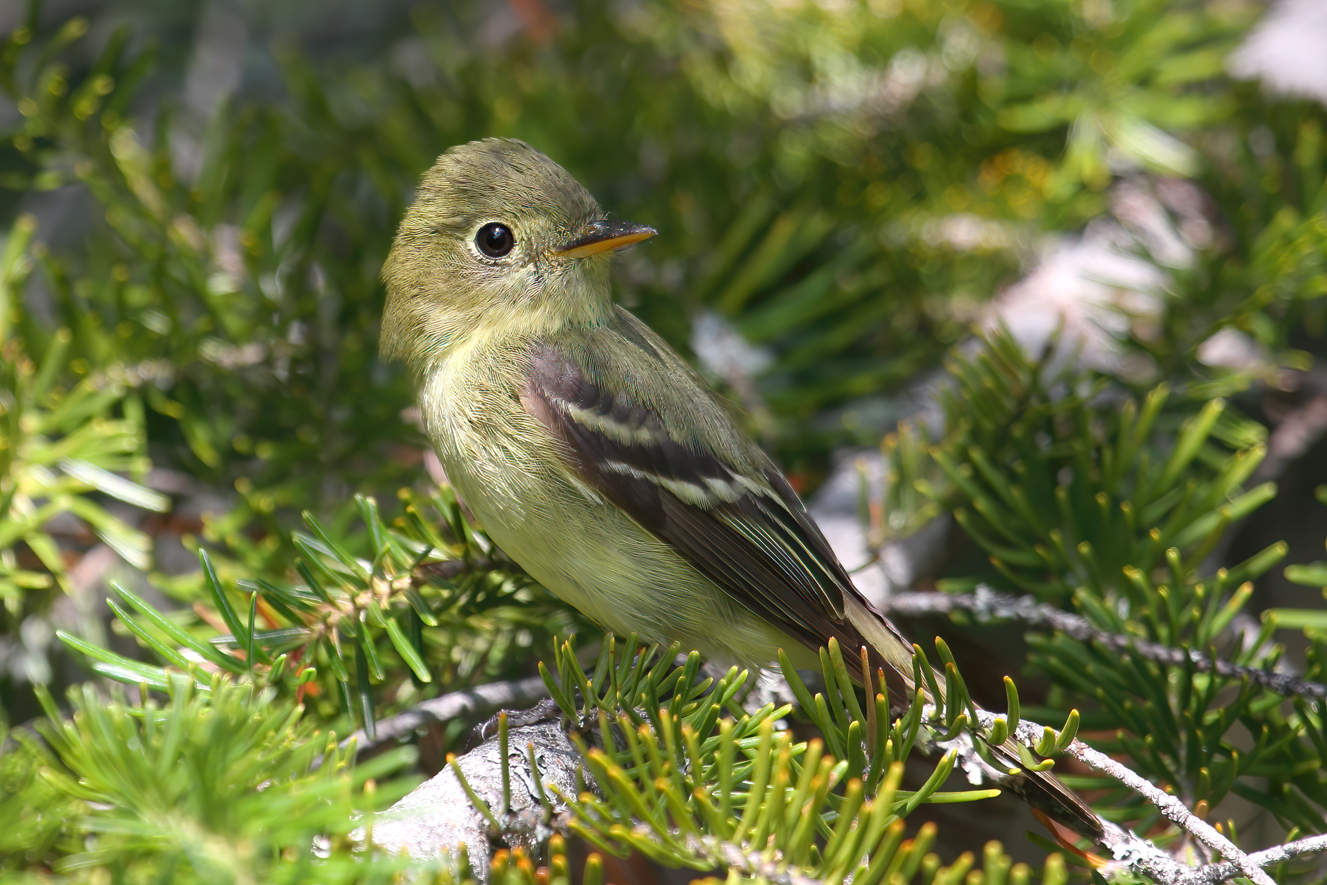 Yellow-bellied Flycatcher, Grands-Jardins National Park, Quebec, Canada.